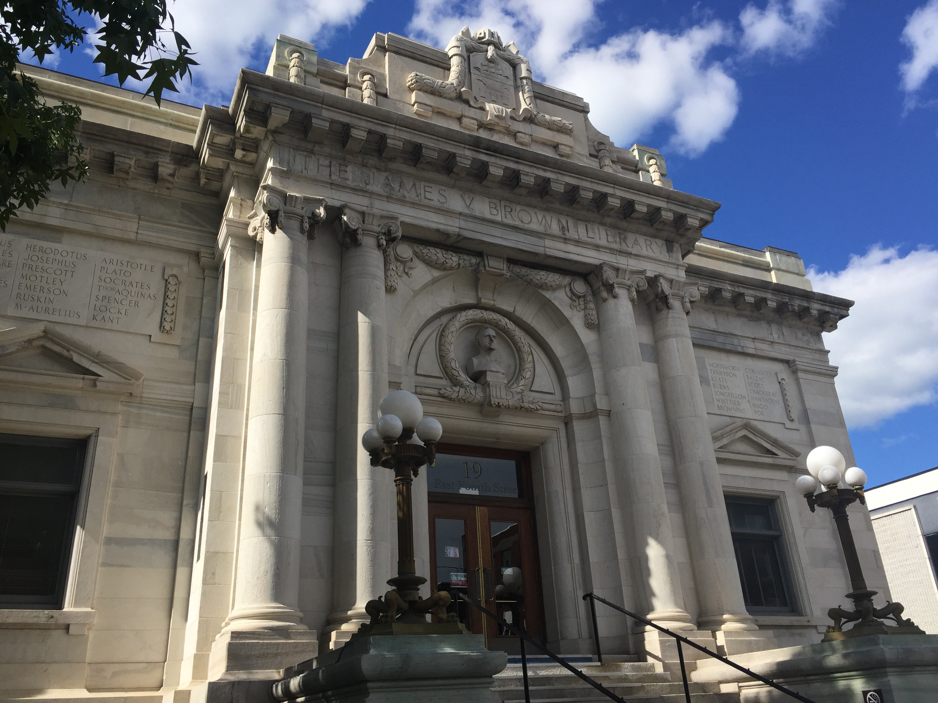 The East Fourth Street exterior of the James V. Brown Library